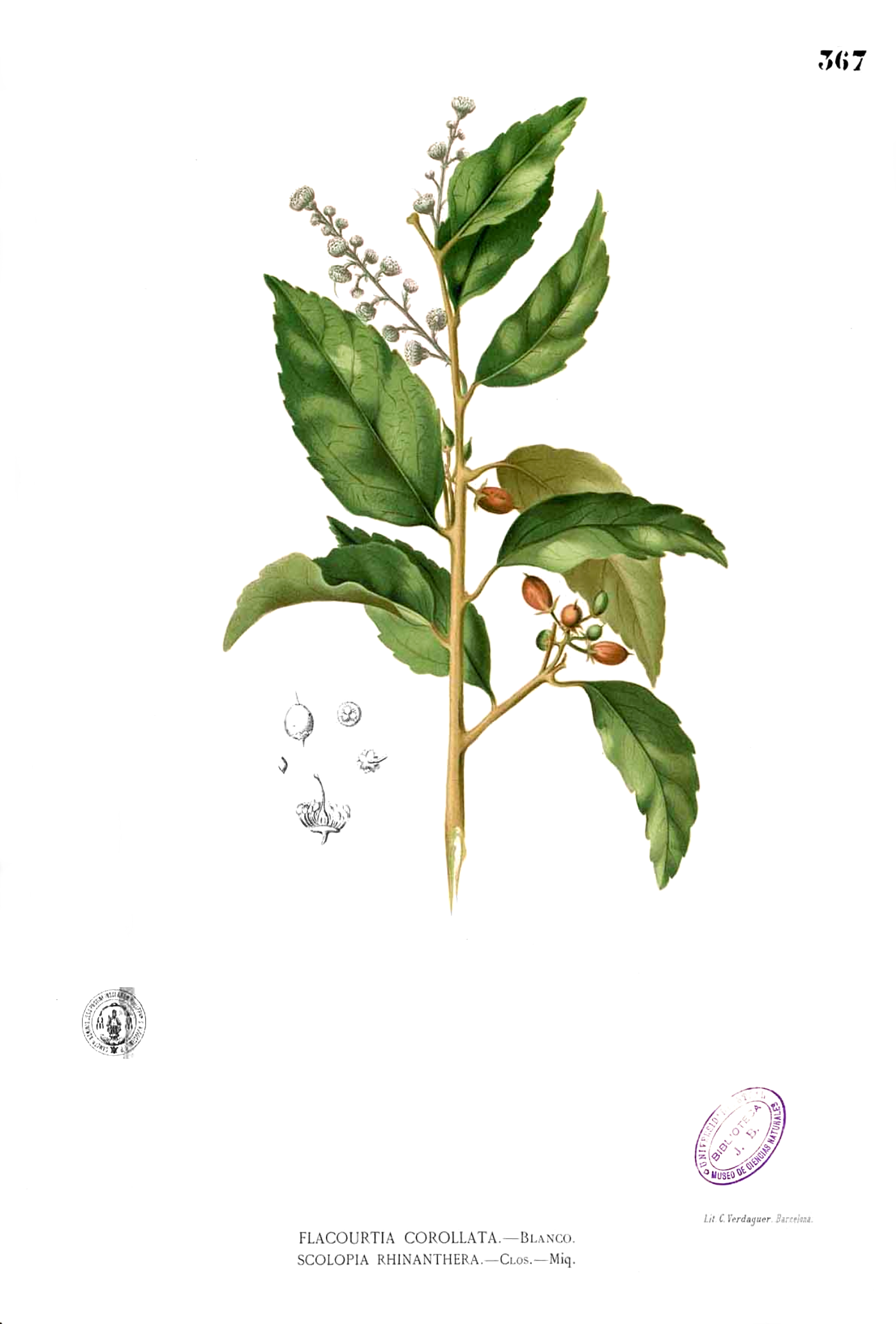 Plate from book